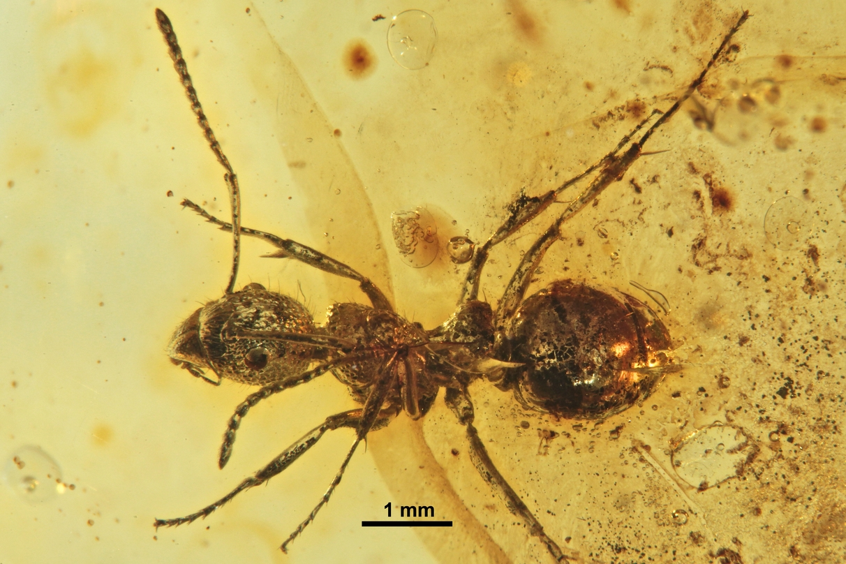 Dorsal view of a Dolichoderus mesosternalis worker. Middle Eocene; Baltic amber, Samland Peninsula, Kalingrad, Russia Geosciences Rennes, University of Rennes, Ille-et-Vilaine, France; specimen IGRBA012